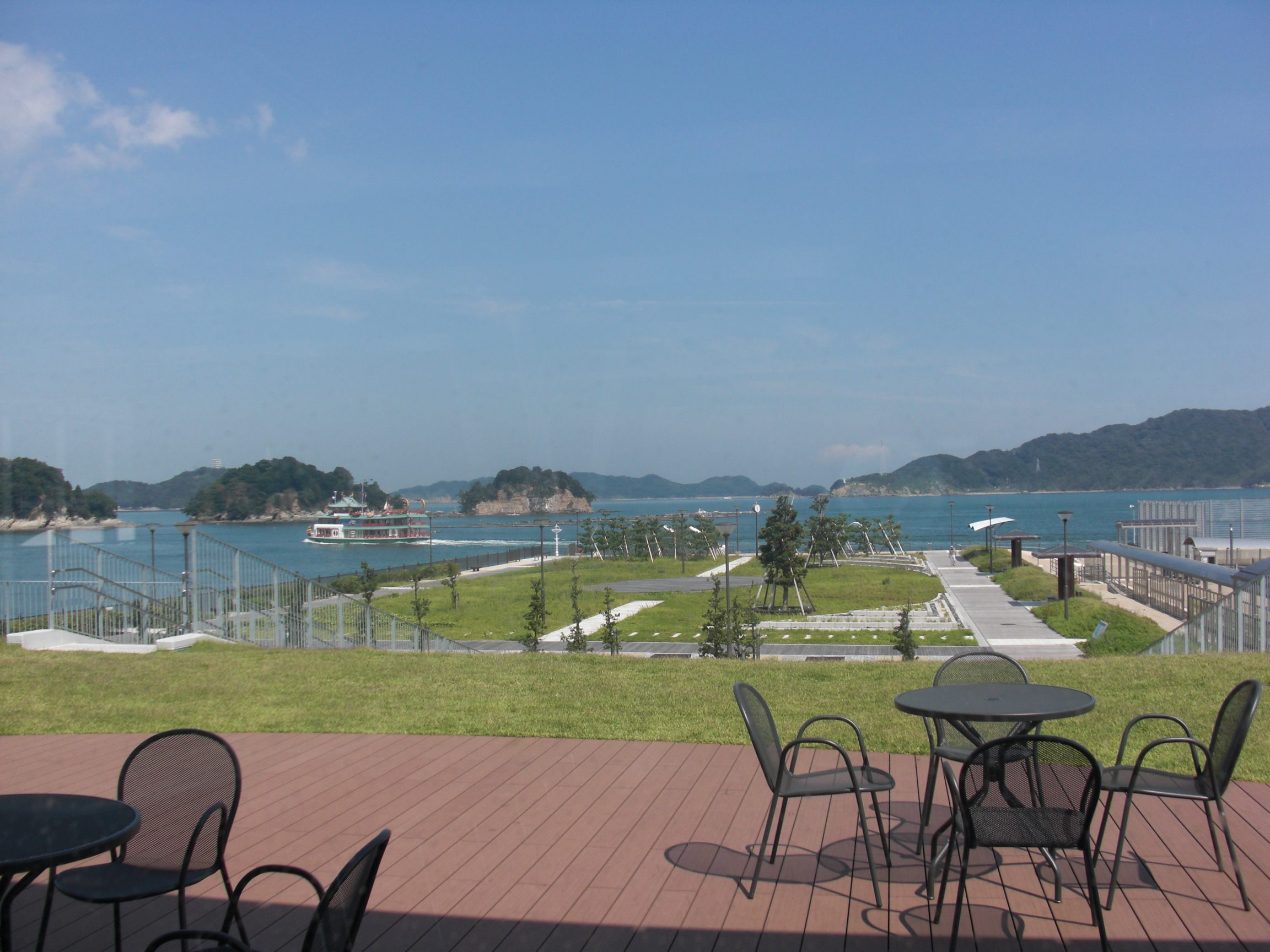 This is Seagull Plaza or Toba Marine Terminal Green Park in toba, Mie, Japan.